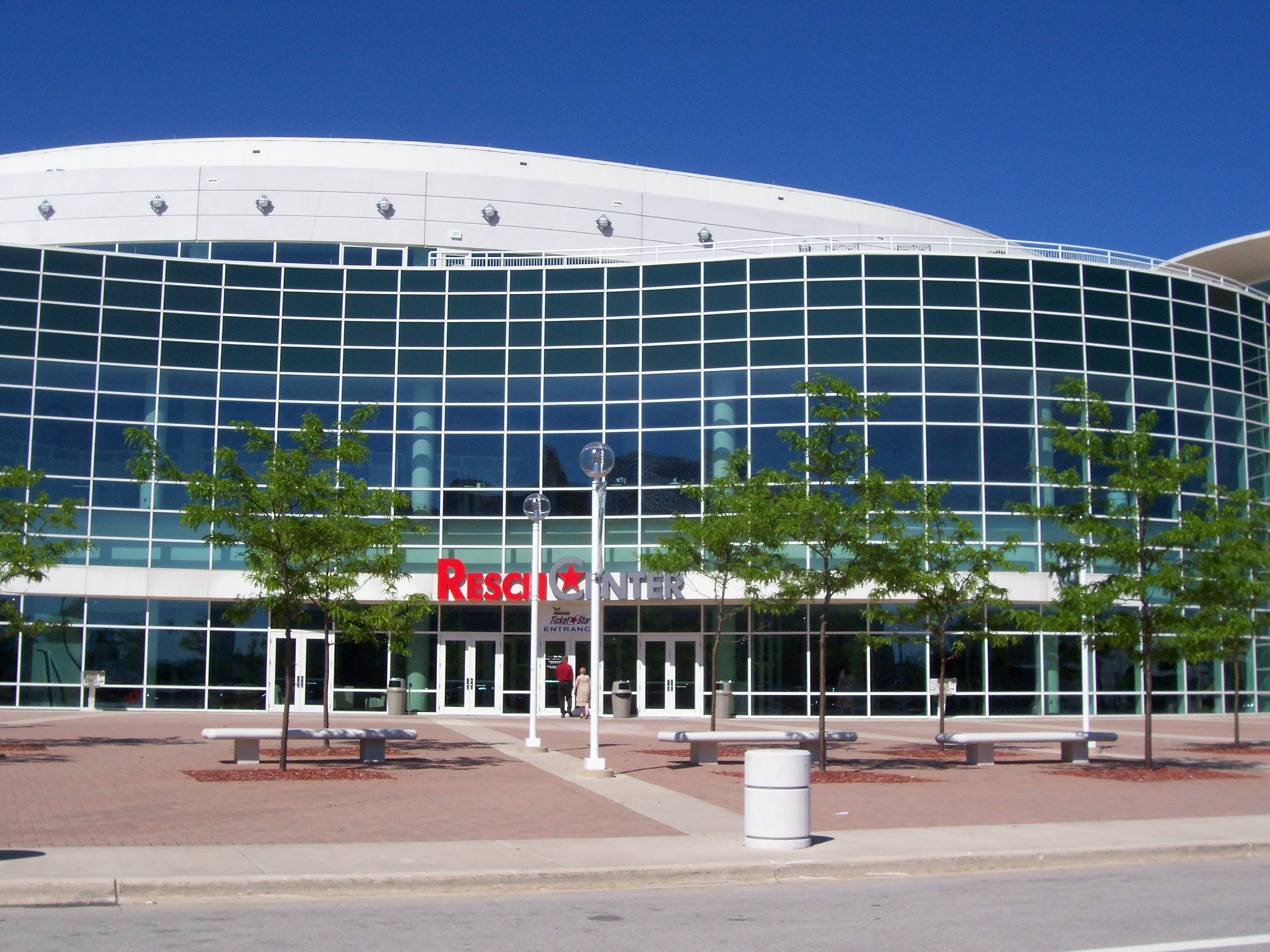 The main entrance to the Resch Center in Green Bay, Wisconsin, USA.